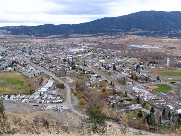 View of the City of Merritt as taken from Norgaard Hill. November 11, 2007.